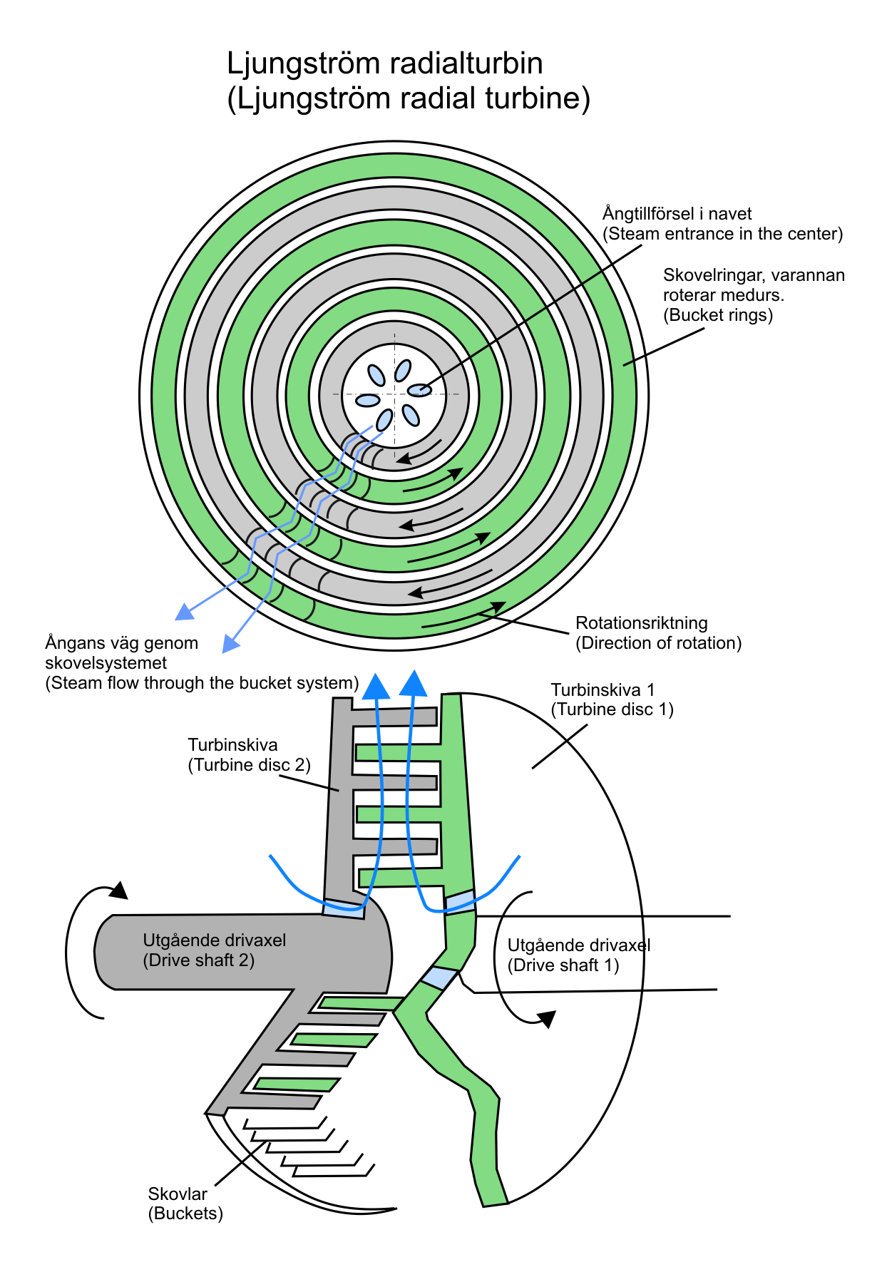 Ljungström radial turbine function principle.